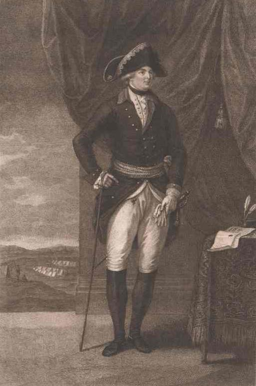 Portrait of Spiridion Louzis (Greek: Σπυρίδων Λούζης, Spiridon Louzis